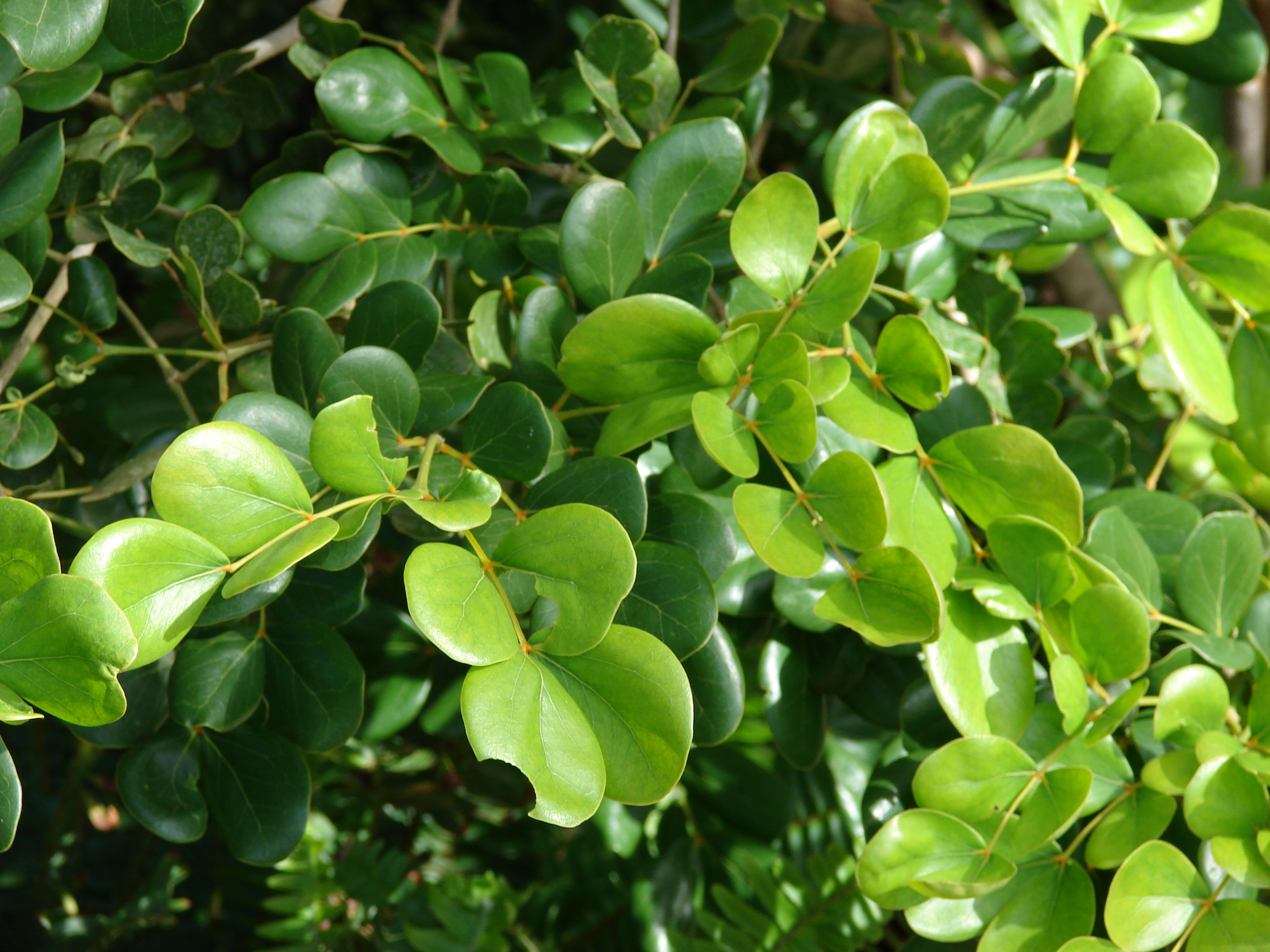 Guaiacum officinale (leaves). Location: Maui, Kapalua